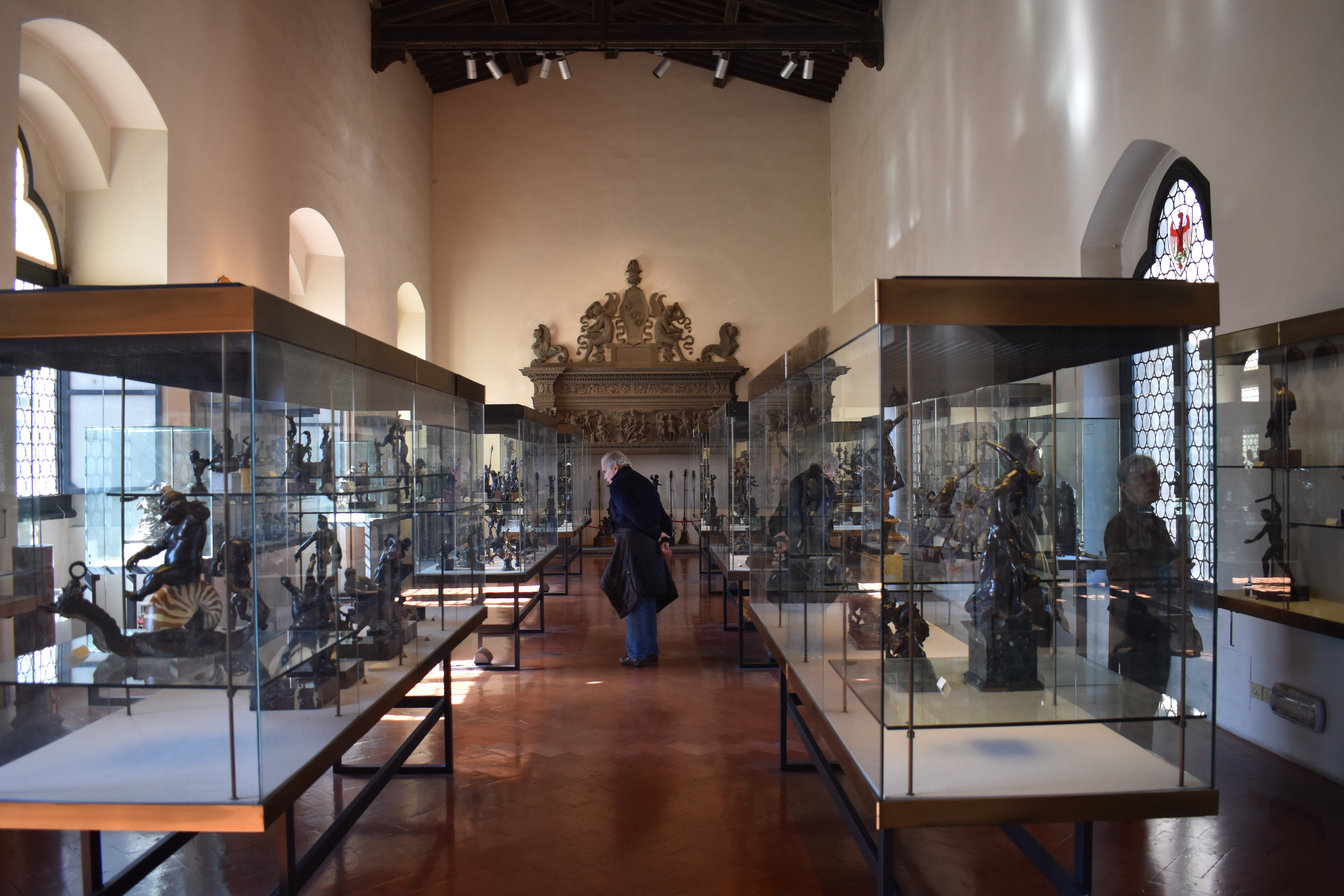 Room of the Small Bronzes, museo del Bargello, Florence